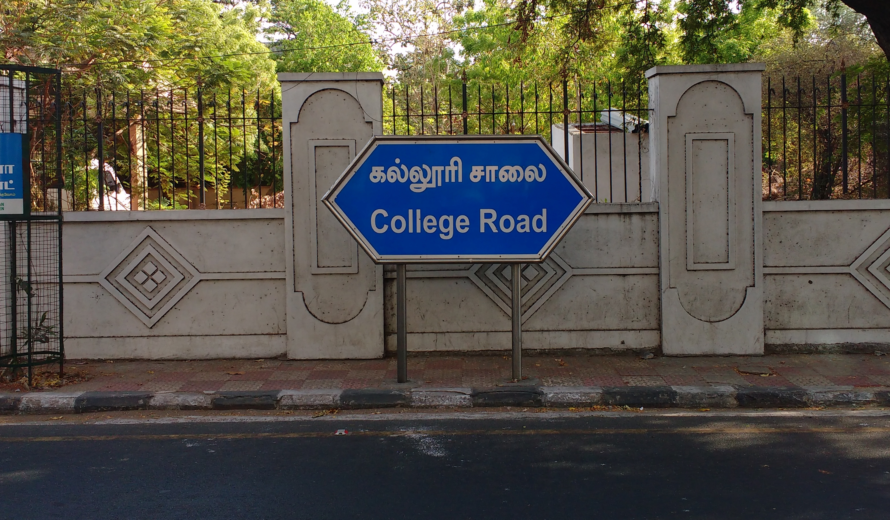 College Road is one of the Most Important road in Nungambakkam at Chennai Metropolitan City